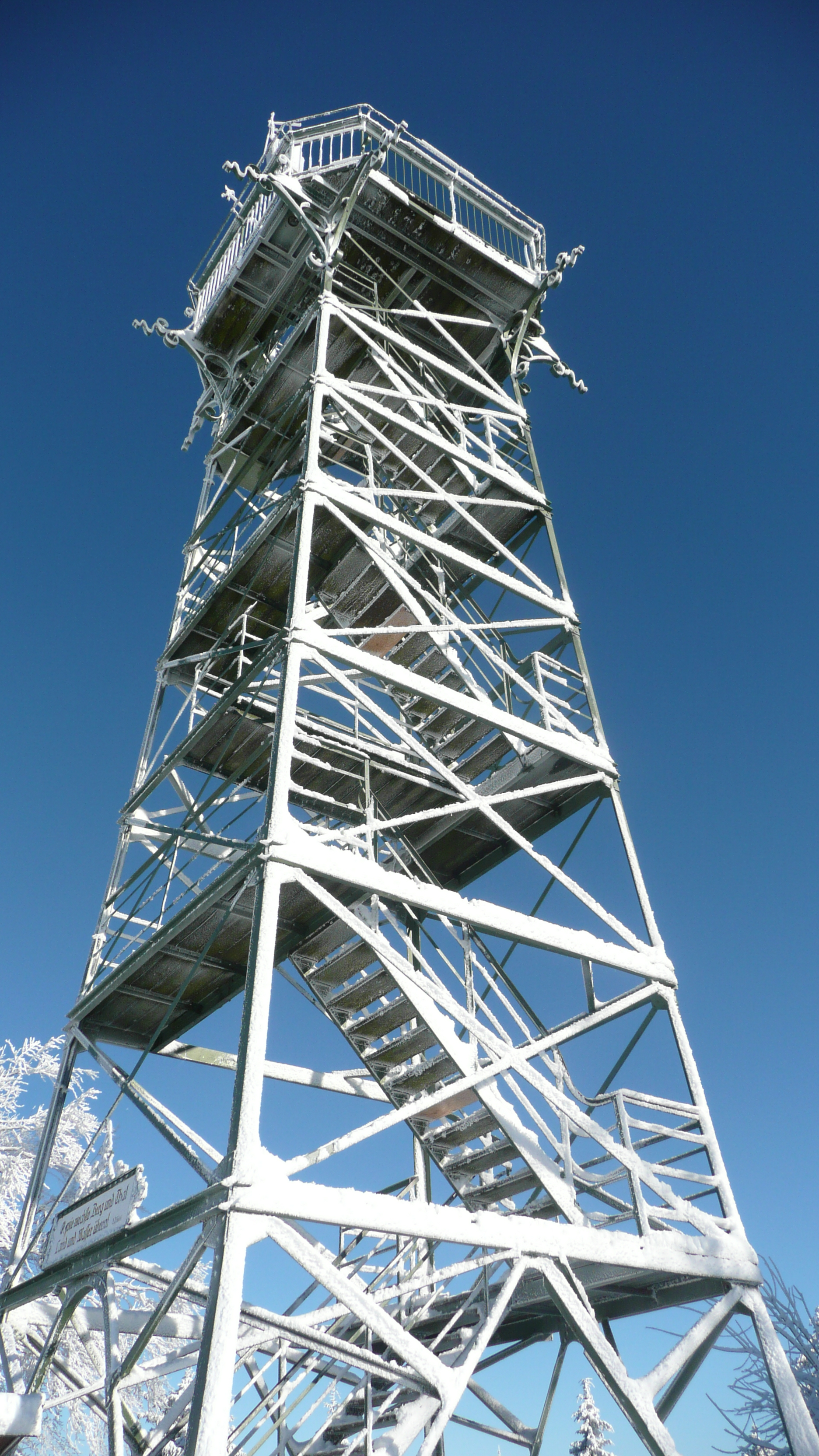 Mountain Hochblauen of the Black Forest near Badenweiler